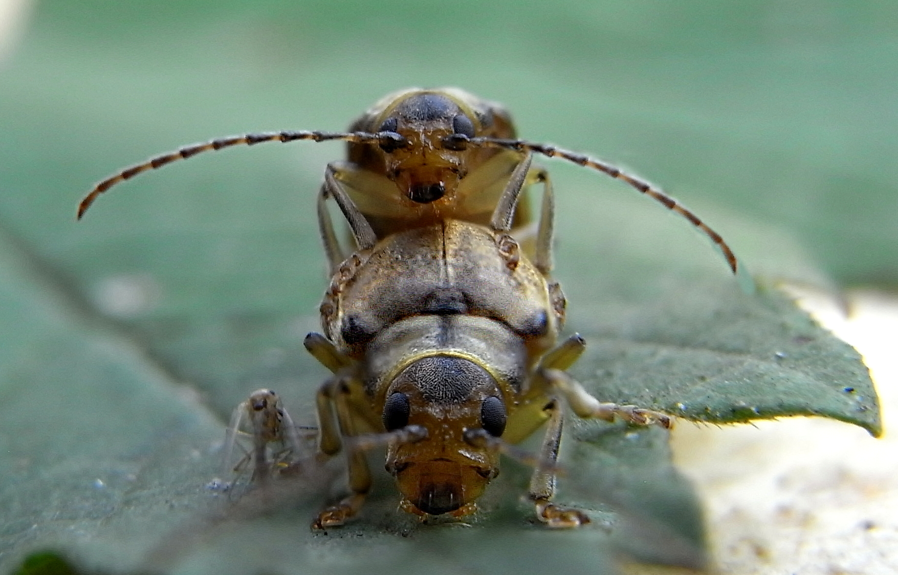 Pyrrhalta viburni from Southern Germany on Viburnum Ricoh R8